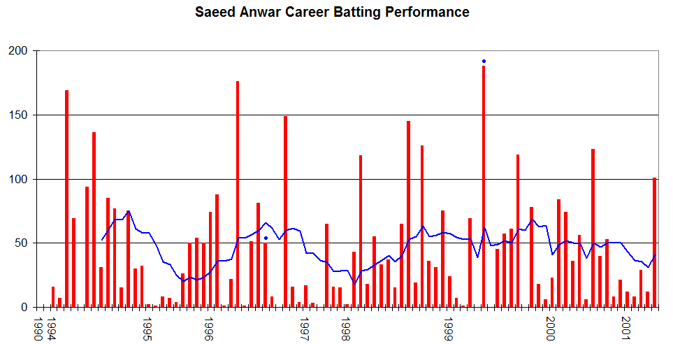 This graph details the Test Match performance of Saeed Anwar. It was created by Raven4x4x. The red bars indicate the player's test match innings, while the blue line shows the average of the ten most recent innings at that point. Note that this average cannot be calculated for the first nine innings. The blue dots indicate innings in which Saeed finished not-out. This graph was generated with Microsoft Excel 2002, using data from Cricinfo and .au.